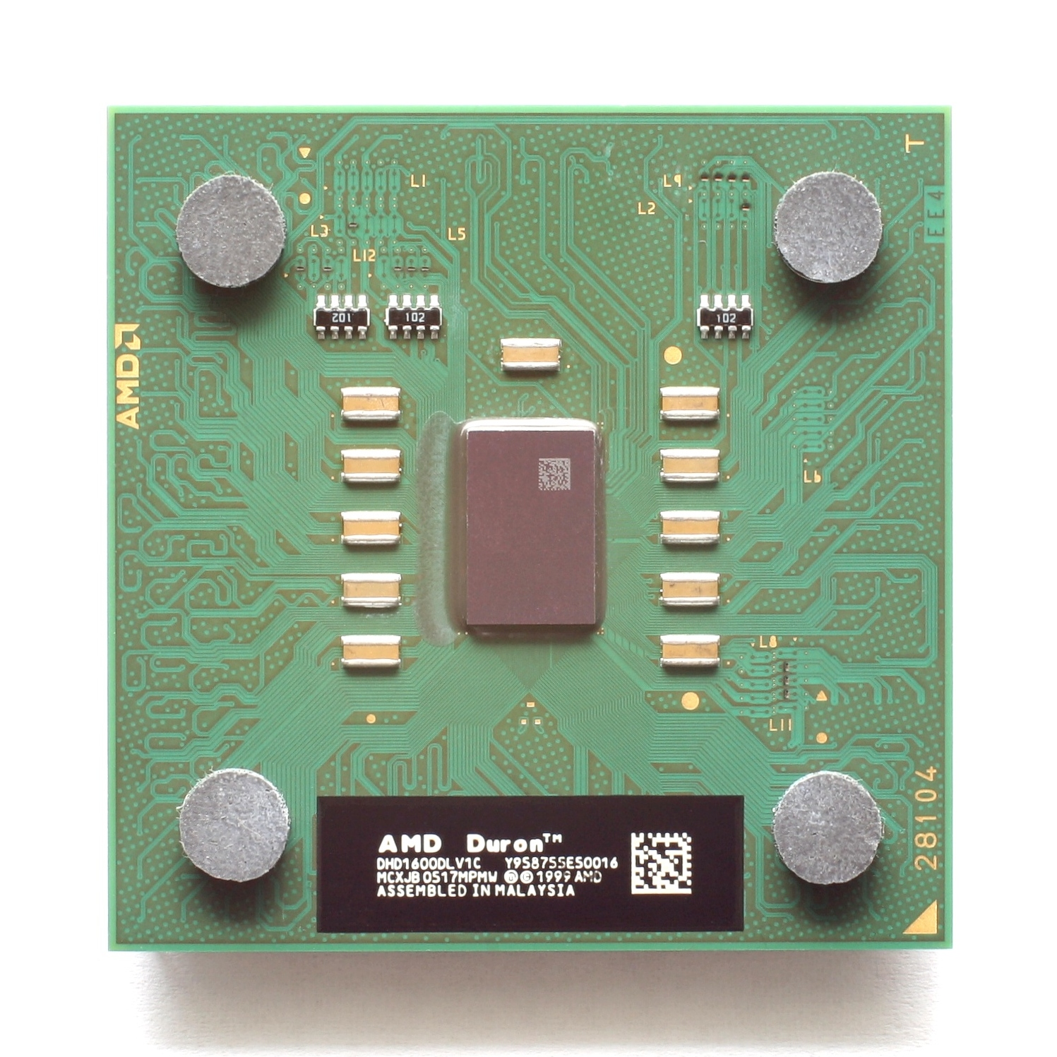 CPU AMD Duron Applebred.